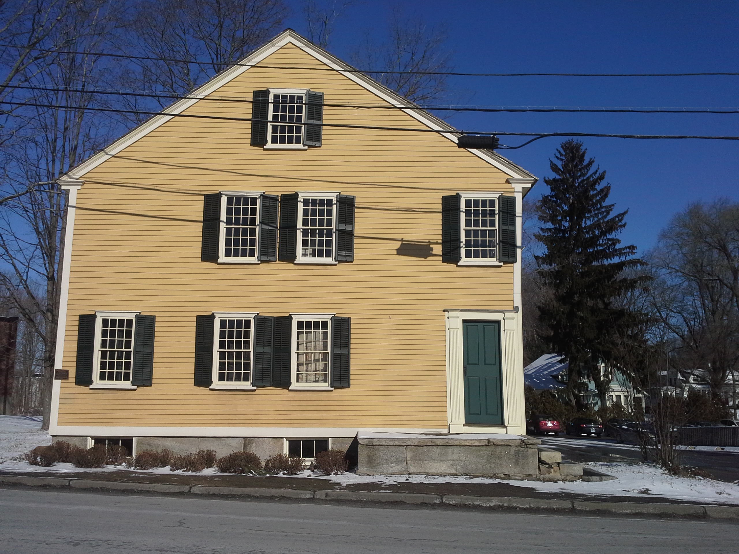 I took this photo in 2013 of the Smithfield Exchange Bank in Greenville Rhode Island in Smithfield RI